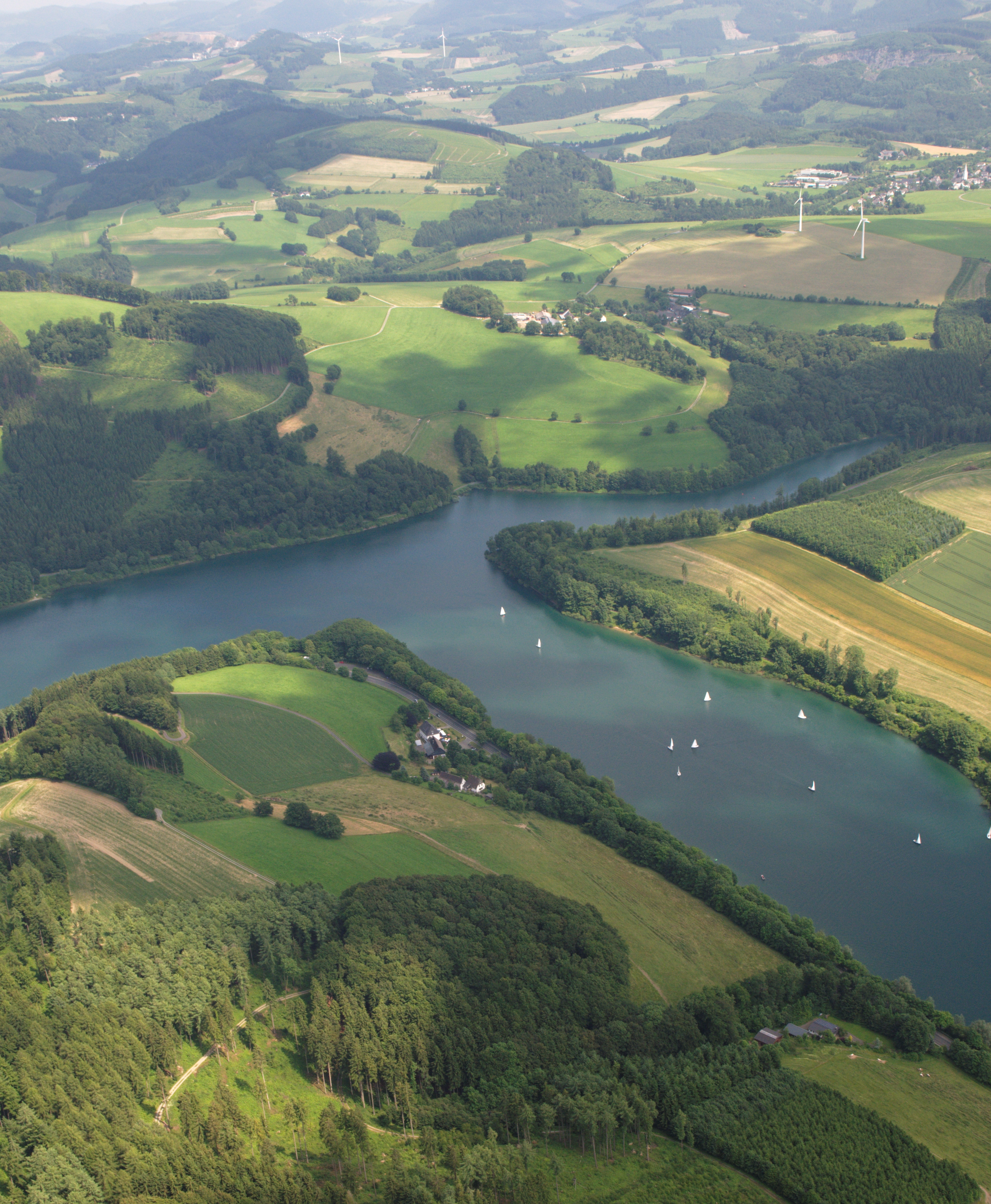 Fotoflug Sauerland-Ost - Hennesee, Am Ufer Immenhausen; oben Vellinghausen, rechts Remblinghausen The making of this document was supported by the Community-Budget of Wikimedia Germany.